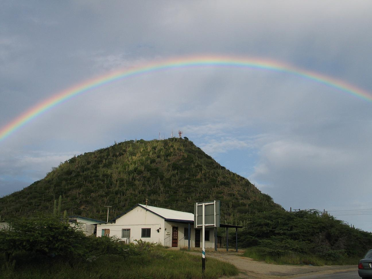 Hooiberg in Aruba